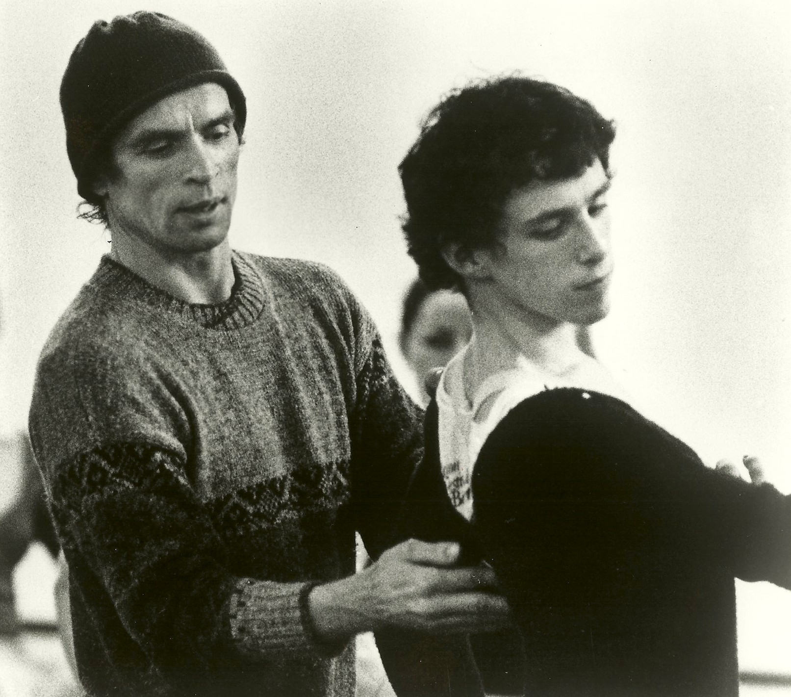 Devon Carney and Rudolph Nureyev in rehearsal for Don Quixote